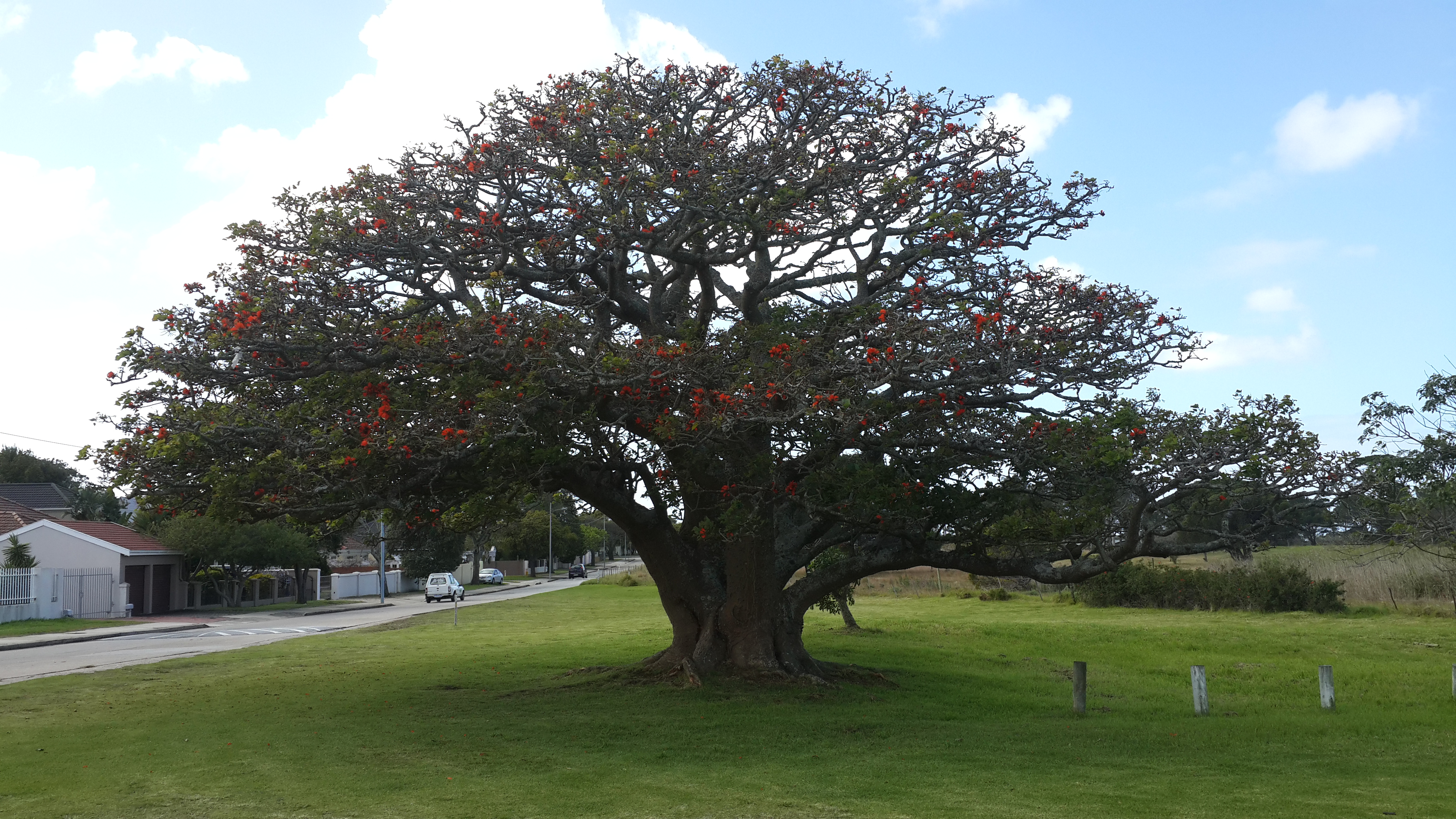 An image of a Coastal Coral tree (Eryttrina Caffra)